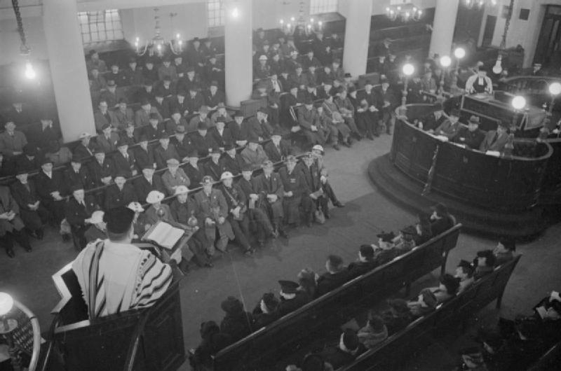 The Great Synagogue After 250 Years, Dukes Place, London, 1941 Many members of the Jewish community in East London, including many in Civil Defence uniforms, gather a few days after the end of Passover to remember Myer Cash, who was killed in an air raid. Myer Cash was a member of the Synagogue Board of Management and was very well-respected. Reverend Barnett Joseph, the minister of South Hackney Synagogue reads the address. In the warden's box (on the right of the photograph) before the Almenor, sit representatives of the various friendly societies of which Cash, a tailor by profession, was a member. Third from the right is Dr Israel Feldman, junior warden of the the Synagogue.